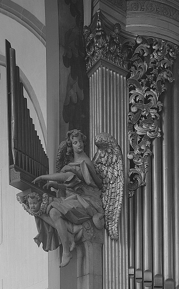 Detail of angel on left hand side of Silbermann organ in Freiberg Cathedral